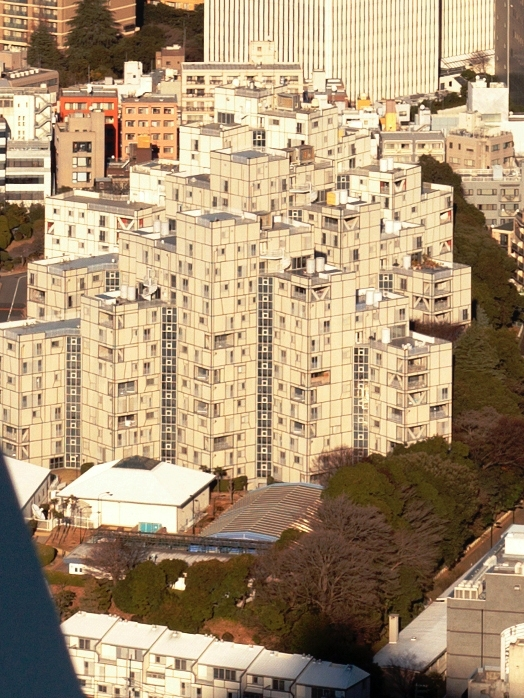 Apartment complex for embassy of the United States of America in Japan employees, Roppongi, Tokyo 駐日アメリカ大使館職員住宅（東京・六本木）